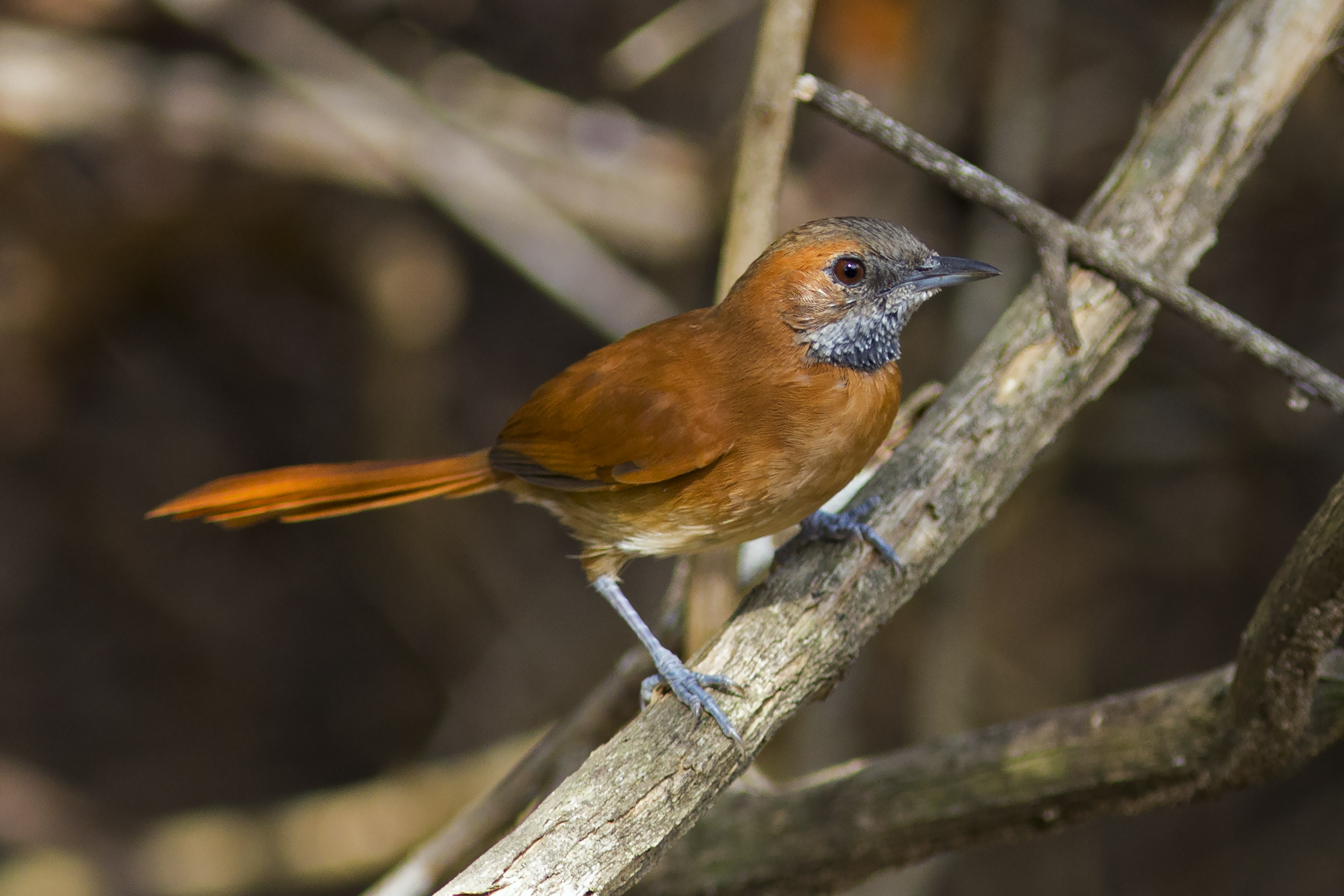 Hoary-throated Spinetail; Amajari, Roraima, Brazil